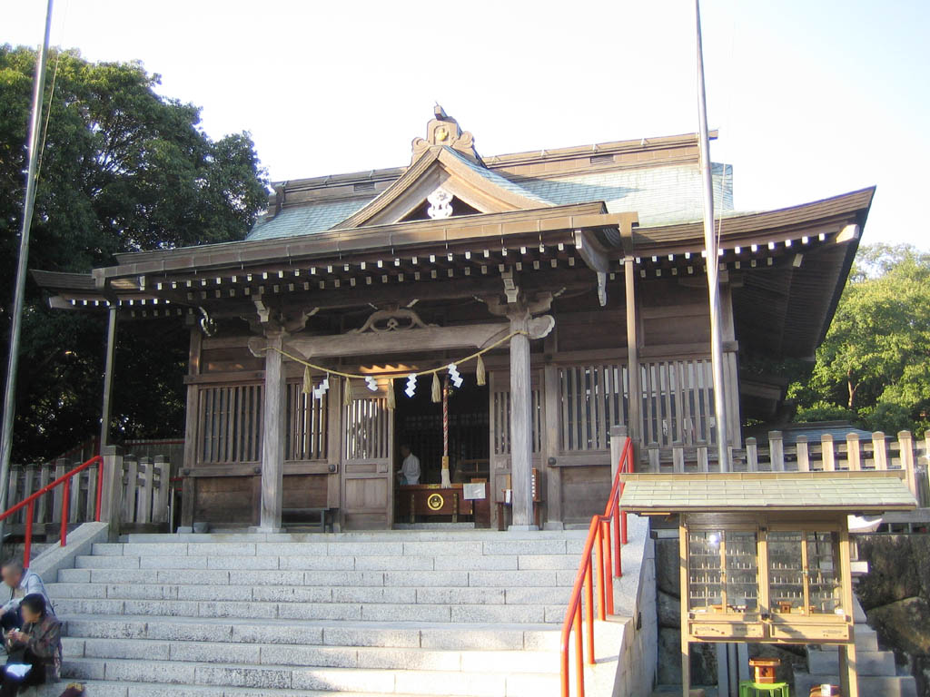 Gosha-inari (五社稲荷), located in Kozakai, Aichi, Japan